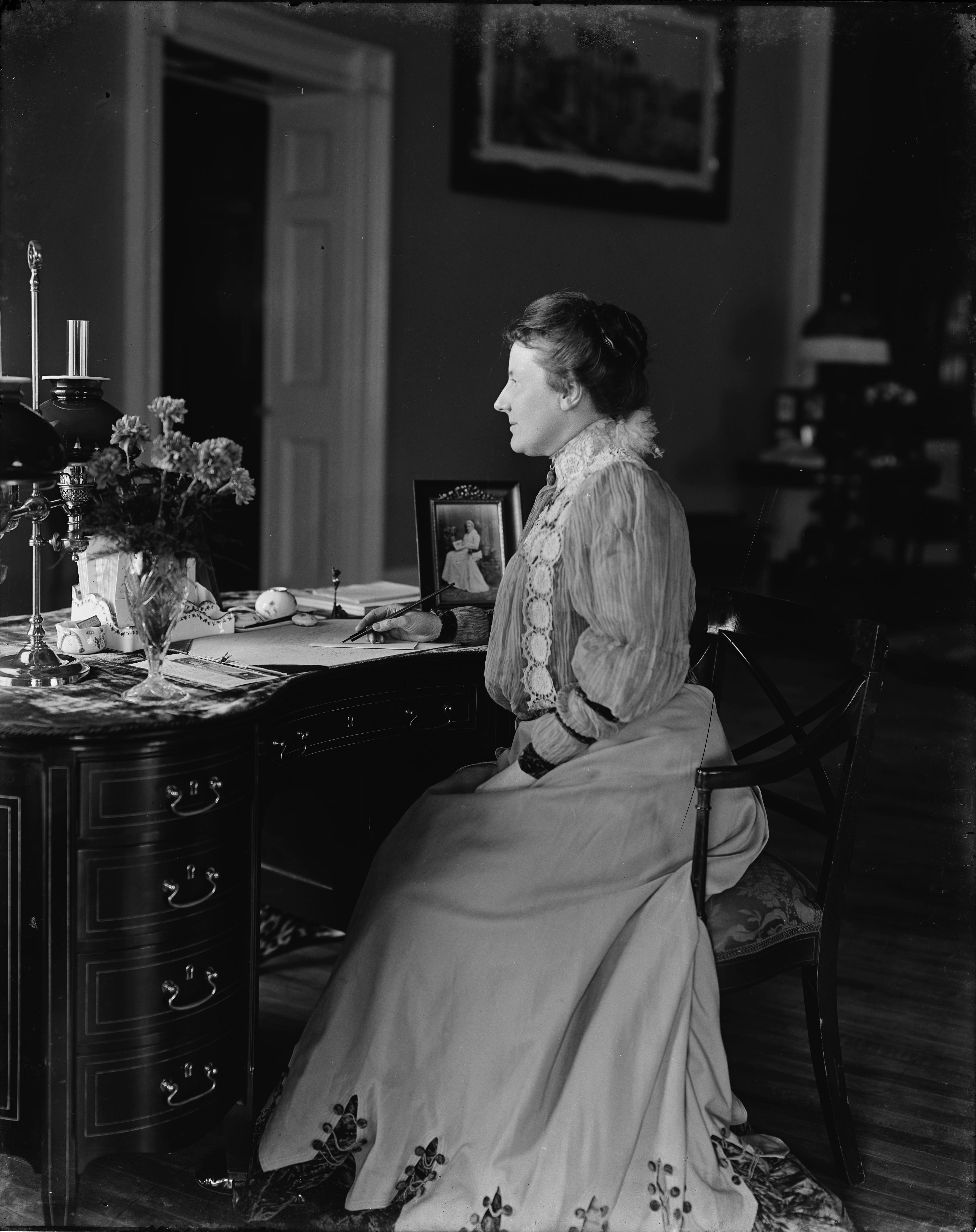 Edith Roosevelt. Library of Congress description: "Roosevelt, Mrs. Theodore (Edith Kermit Carow)".